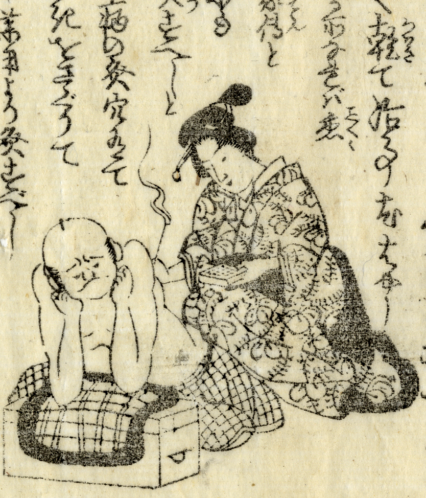 Japanese (chinese technics) moxibustion depicted in the medical house-book Banshō myōhōshū (万象妙法集, 1853)